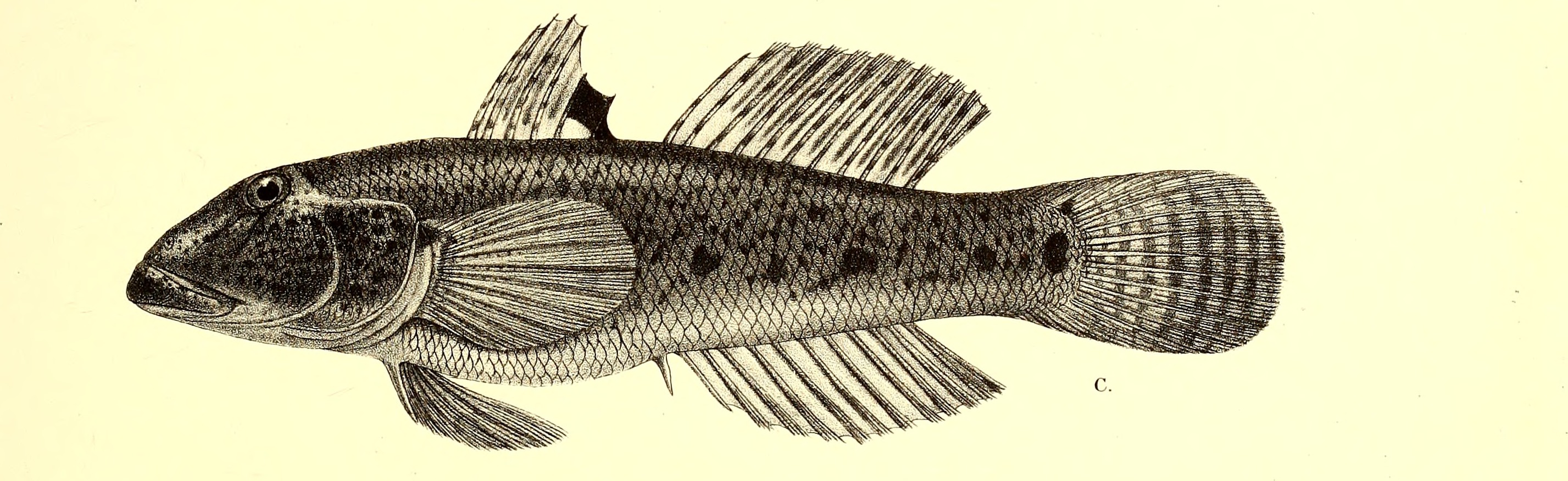 Awaous ocellaris syn. Gobius ocellaris Title: Andrew Garrett's Fische der Südsee Year: 1873 (1870s) Authors: Garrett, Andrew; Günther, Albert C. L. G. (Albert Carl Ludwig Gotthilf), 1830-1914; Ford, G. H. (George Henry), 1809-1876, ill; Library of Congress, former owner. DSI Subjects: Fishes; Fishes; Natural history Publisher: Hamburg : L. Friederichsen & Co. Text Appearing Before Image: ' Text Appearing After Image: '